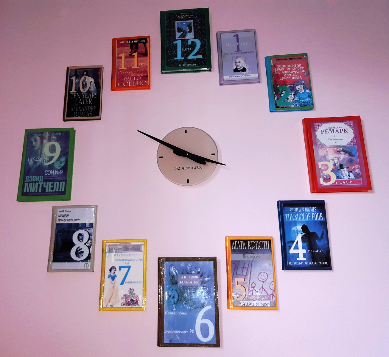 Հ.32 գրադարանի գրքաժամացույցը